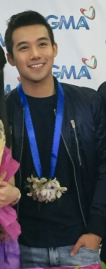 Ken Chan at the Meant to Be production presentation, November 2016